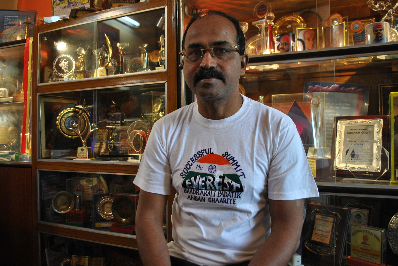 This portrait of Everester Dipankar Ghosh was taken in his residence in Bally, while collecting information for the article about him